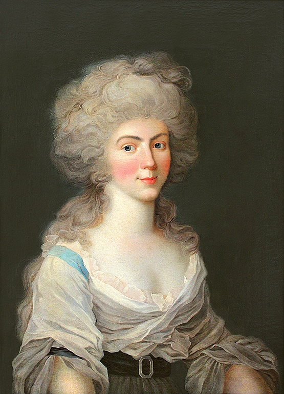 Portrait of Augusta Wilhelmine of Hesse-Darmstadt (1765-1796), first wife of Maximilian I Joseph of Bavaria